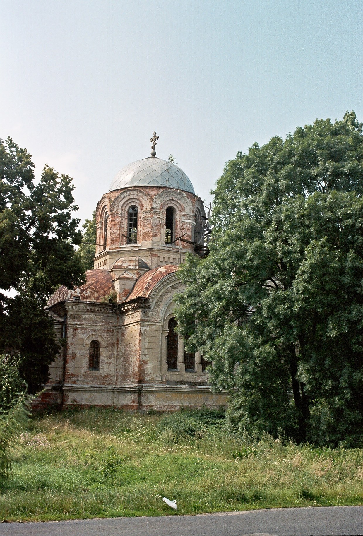 Cerkiew in Dolhobyczow